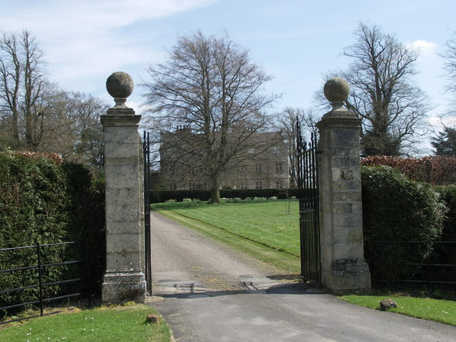 Gateway to Carlton Hall.